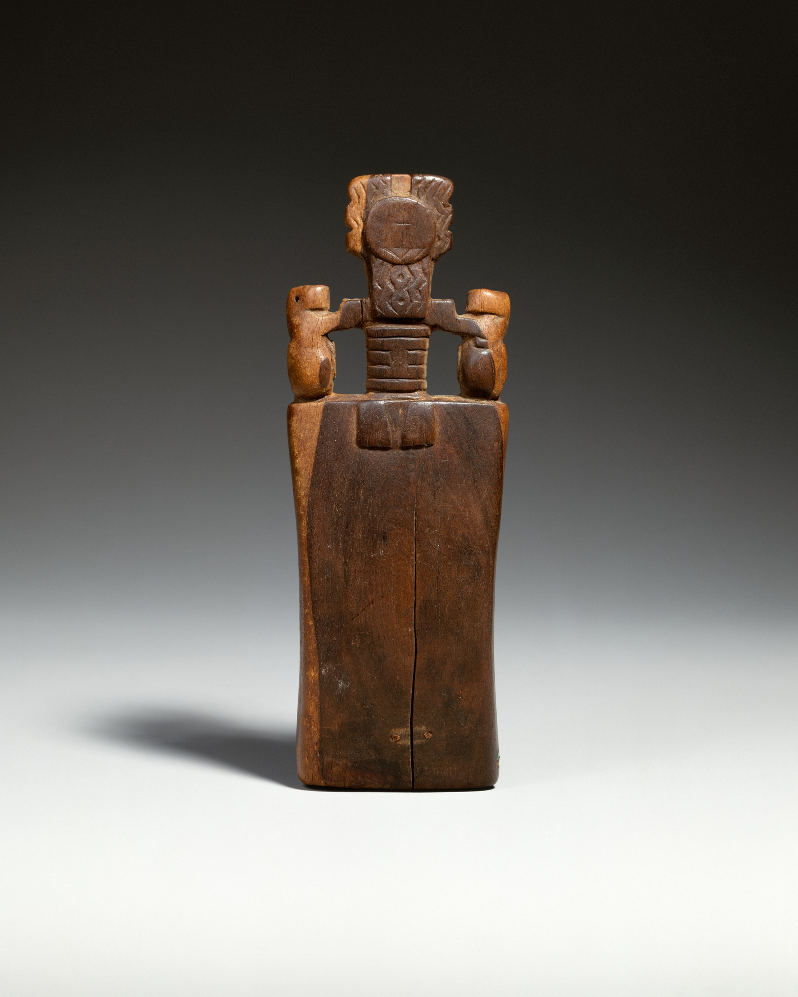 Wari; Snuff tray; Wood-Containers